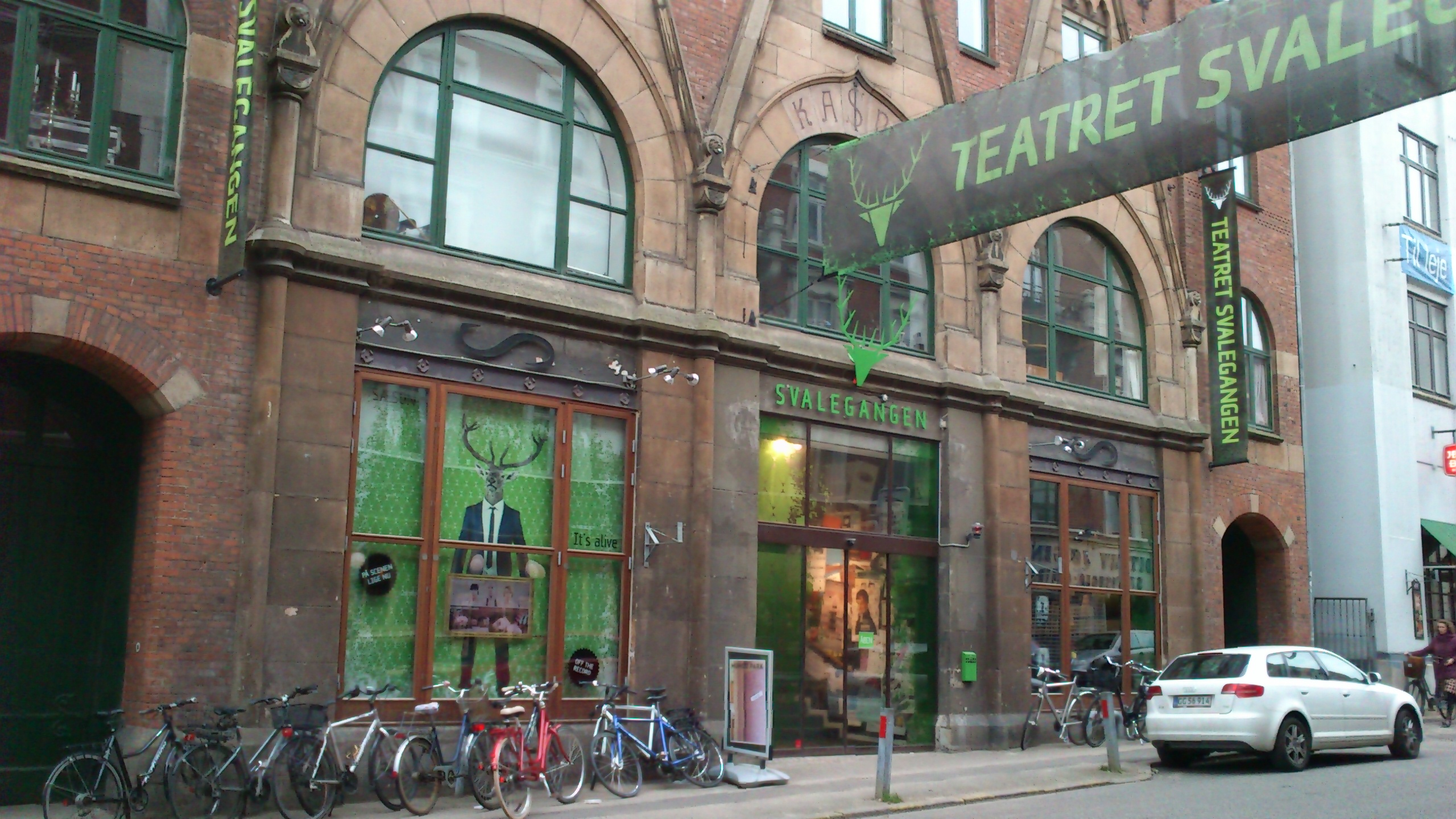 Svalegangen